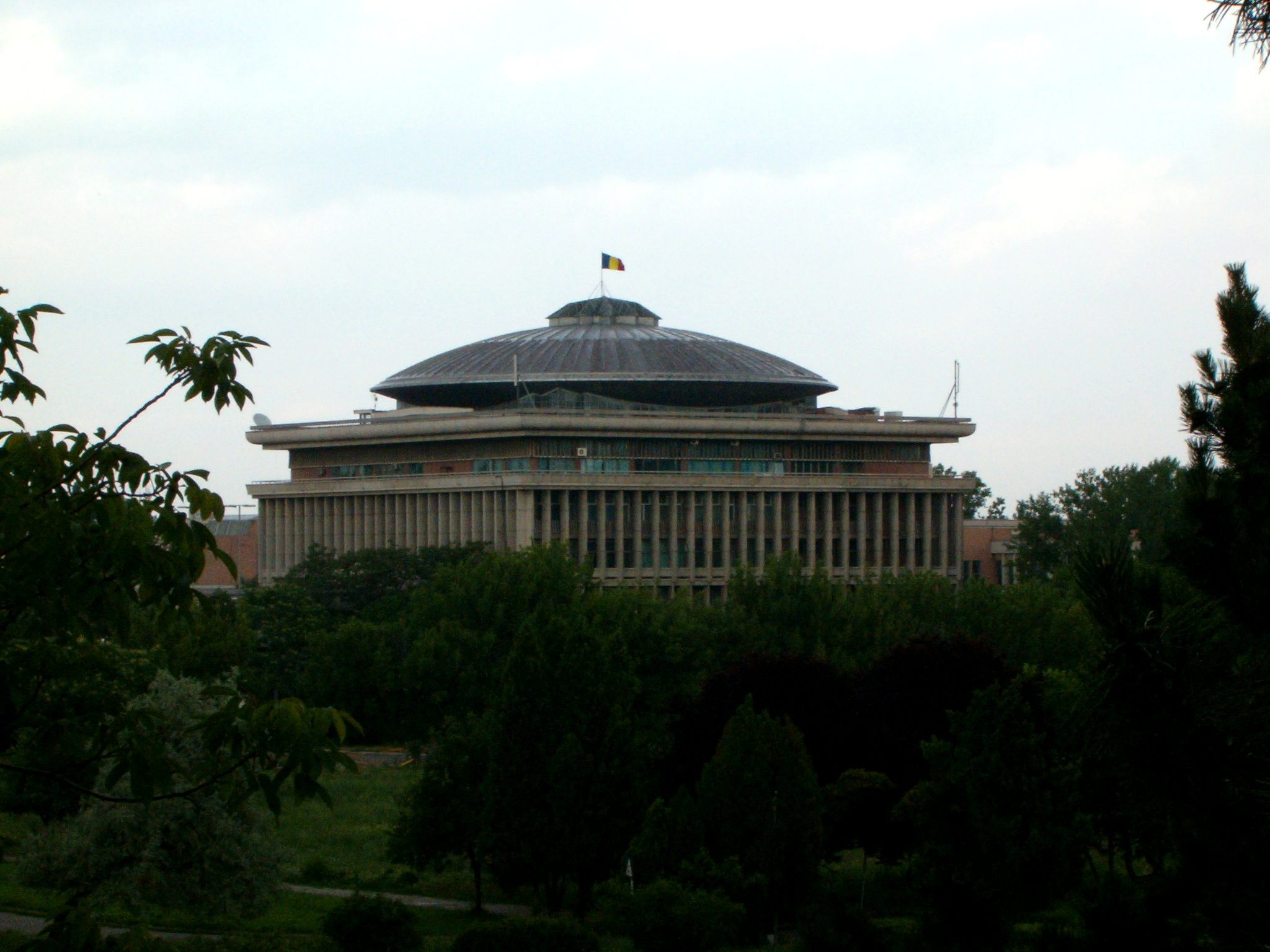 The Politehica University of Bucharest (Romania) rectorate building